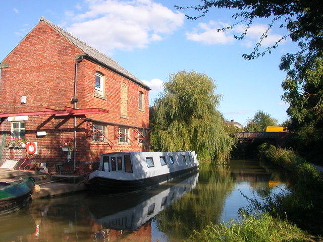 Clifton On Dunsmore -Oxford Canal Repairs and maintenance at Clifton Wharf.